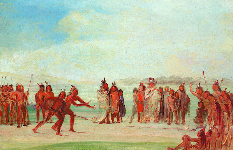 George Catlin, Tchung-kee, a Mandan Game Played with a Ring and Pole", 1832-3 Smithsonian American Art Museum collection.